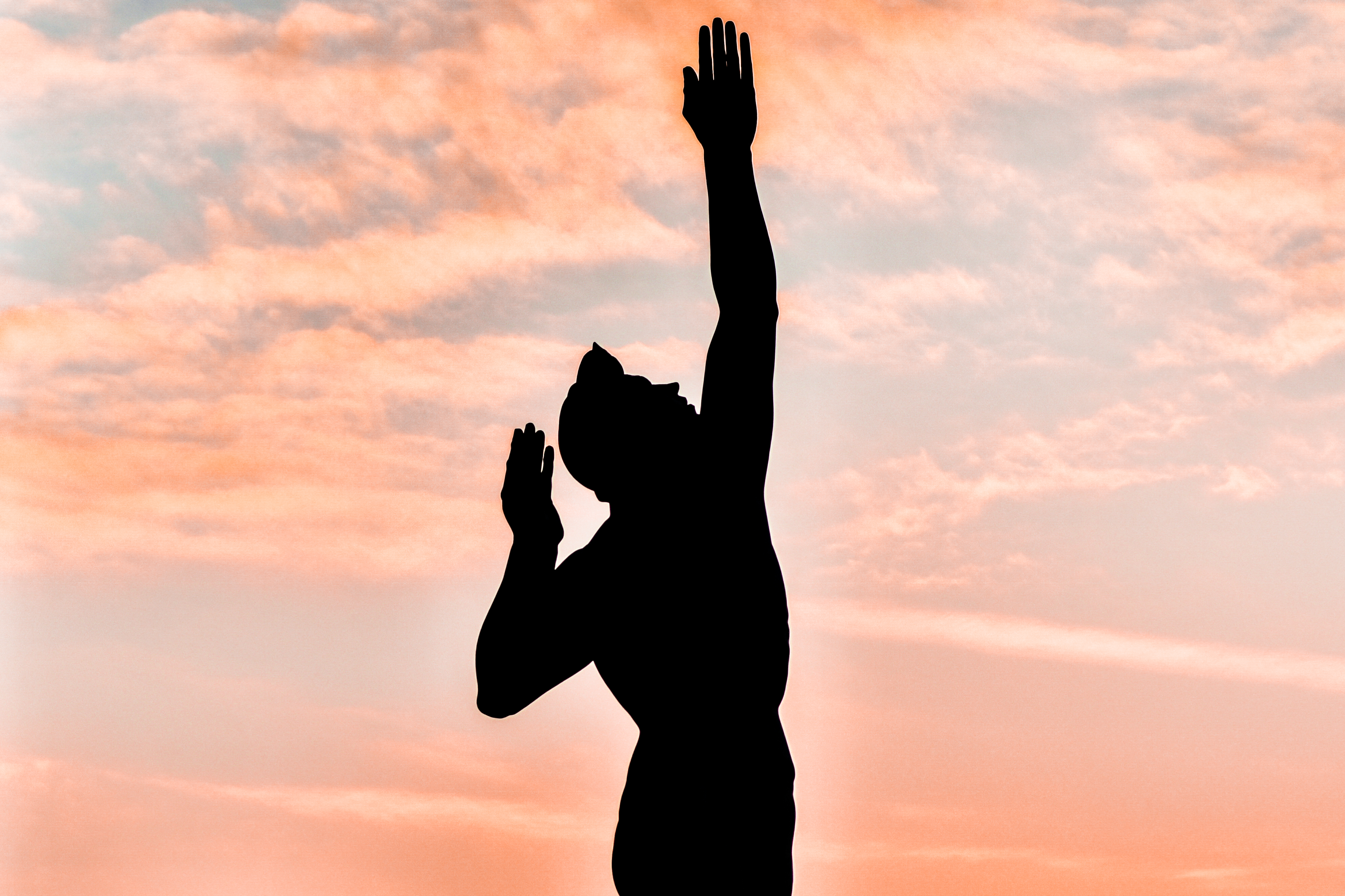 Fountain of Eternal Life